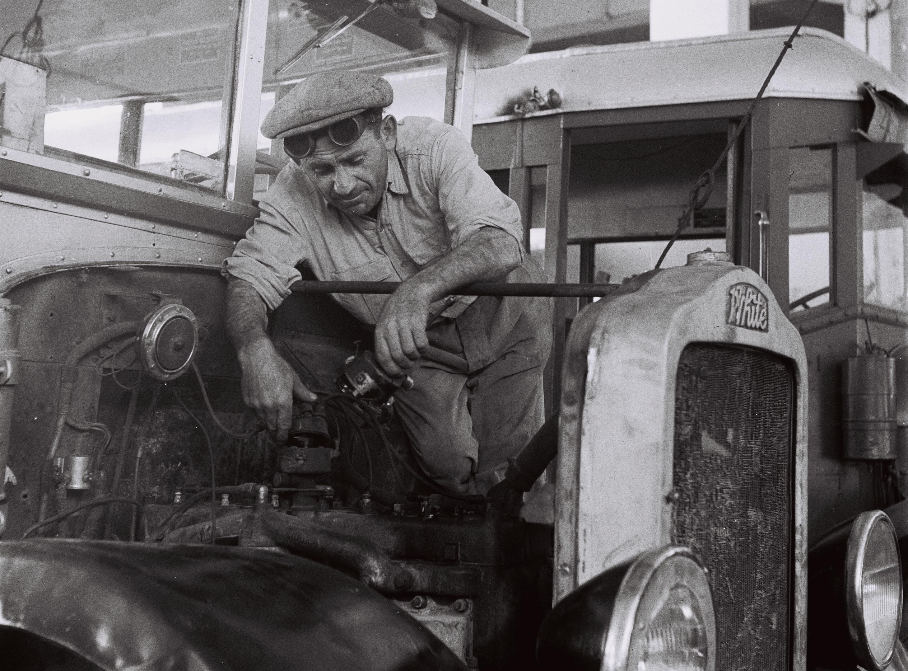 Dan Revler, a member of Kibbutz Efal, works as a motor mechanic in the garage of the Egged bus company. חבר קיבוץ אפעל, דן רבלר, עובד כמכונאי רכב בחברת האוטובוסים, אגד Photo: Zoltan Kluger (1896–1977) Alternative names Qlwger, Zwlṭan; Zolṭan Ḳluger; Kluger, Z.; W. von Szigethy; W. Von SzighethyDescriptionHungarian-Israeli photographerDate of birth/death 8 February 1896 16 May 1977Location of birth/death Kecskemét ManhattanAuthority control : Q7035699 VIAF: 19504001 ISNI: 0000 0000 6686 1613 ULAN: 500483392 LCCN: no2008144265 Open Library: OL6614008A WorldCat creator QS:P170,Q7035699 , 08/01/1947